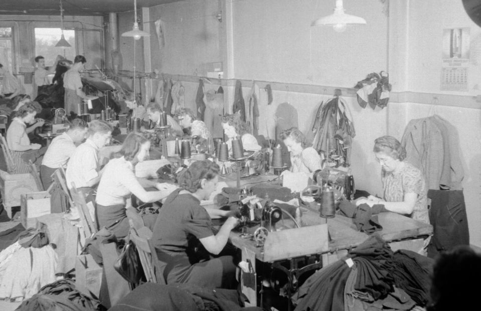 We see designers and seamstresses working on garment manufacturing Women clothes factory "Laniel Maurice Enrg" located at 7542, rue Saint-Hubert in Montreal.